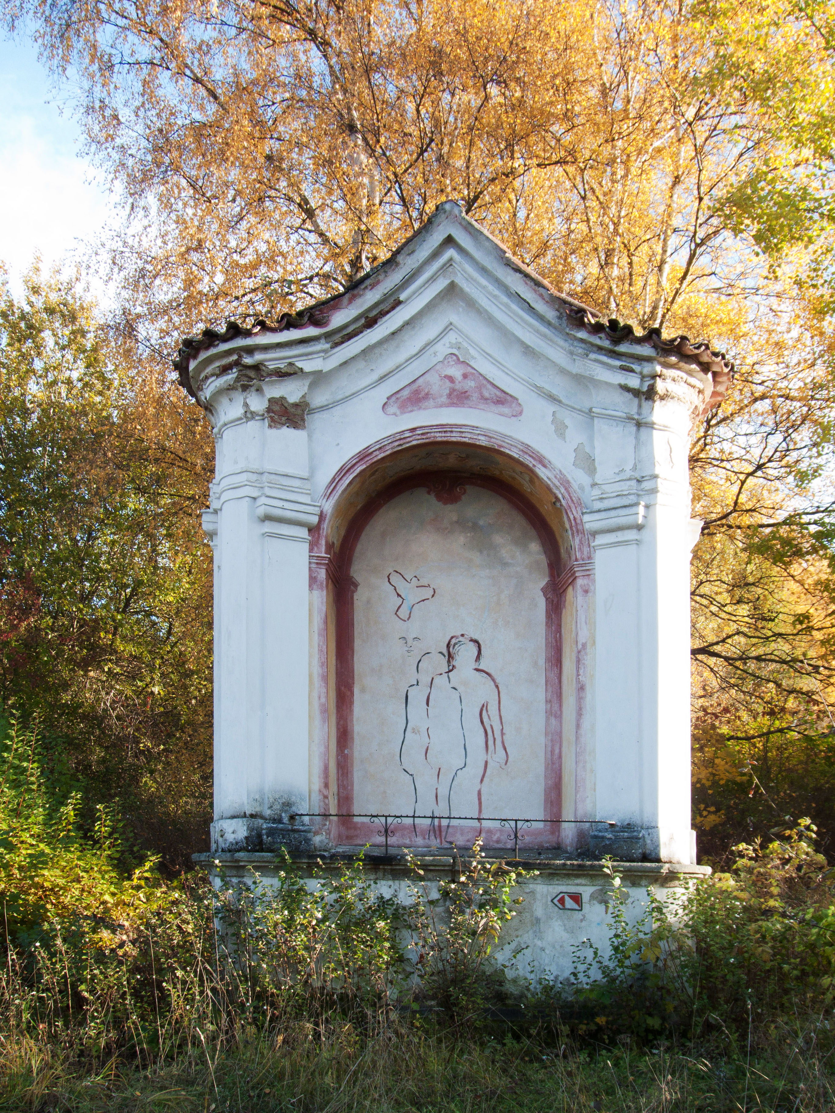 Shrine in the Stations of the Cross on the way to the Chapel of the Exaltation of the Holy Cross in the town of Český Krumlov, South Bohemian Region, Czech Republic